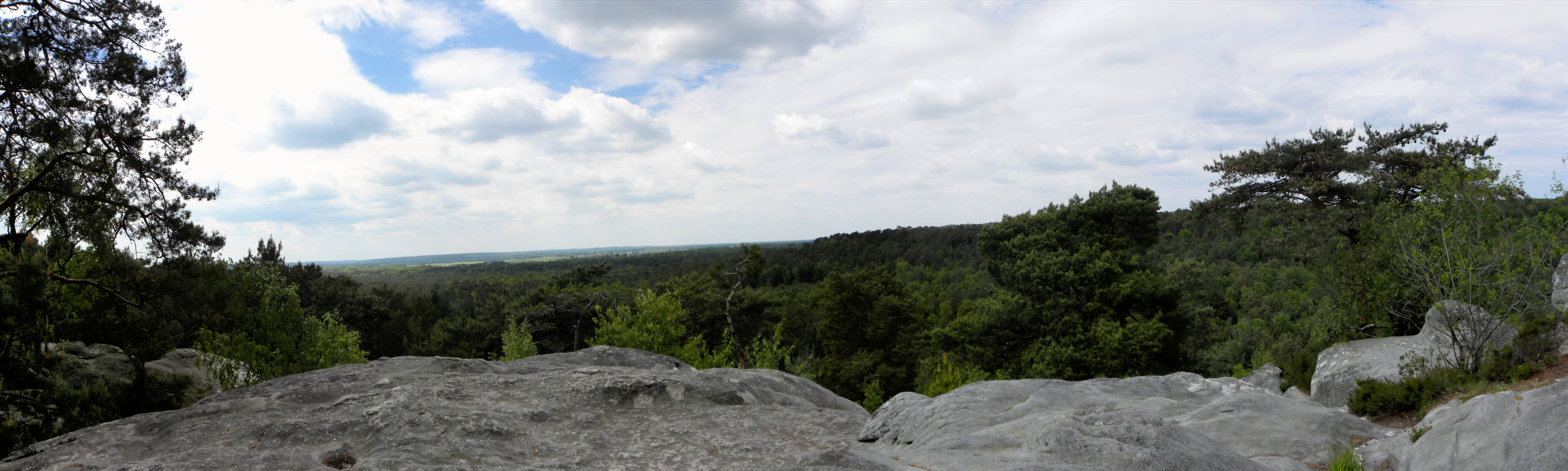 View of the Gorges de Franchard in the Forest of Fontainebleau